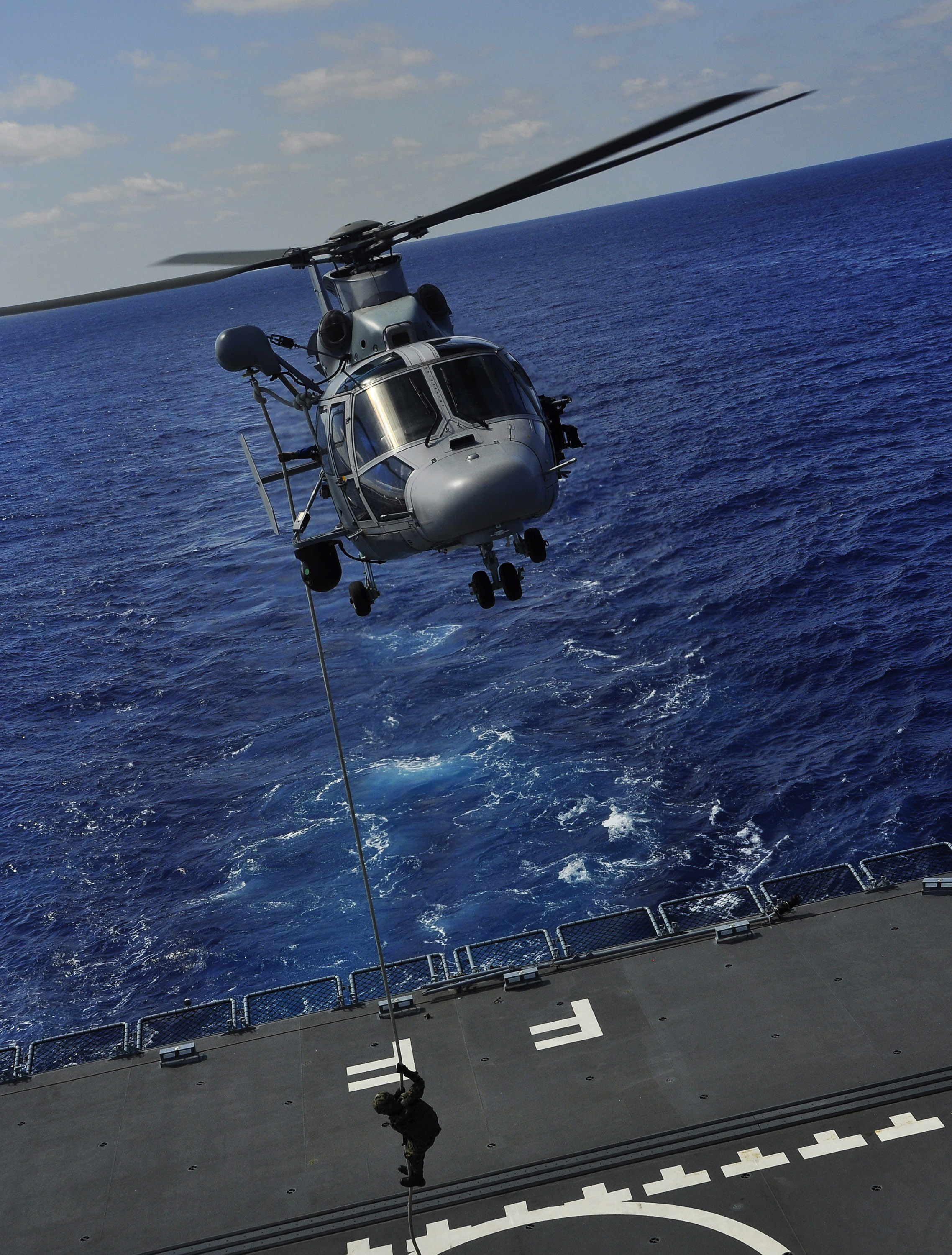 A Mexican marine fast ropes onto the flight deck of the German Combat Support Ship Frankfurt Am Main (A1412) during a simulated multi-national maritime interdiction operation